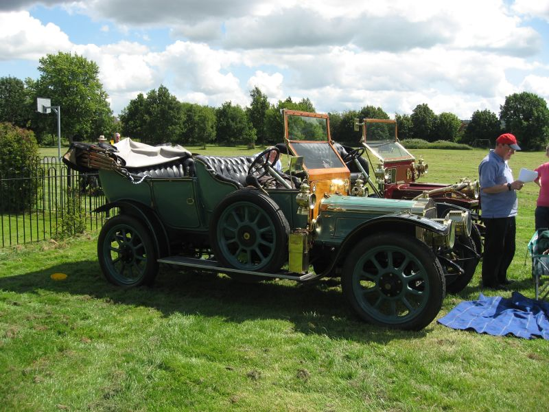 1911 Talbot-London Type M 15-hp 3½-litre 4-cylinderThis particular car was sold new in Australia and the Roi-des-Belges body was constructed locally by Isaac Phizackerley(?) source VCC Uffington Oxfordshire picnic 8 July 2007 Chassis Number 5118 Engine Number 122 CC 3563